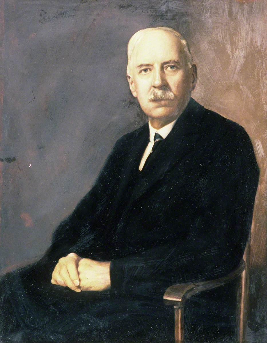 A painting from the Framed Works of Art collection at the National Library of wales.